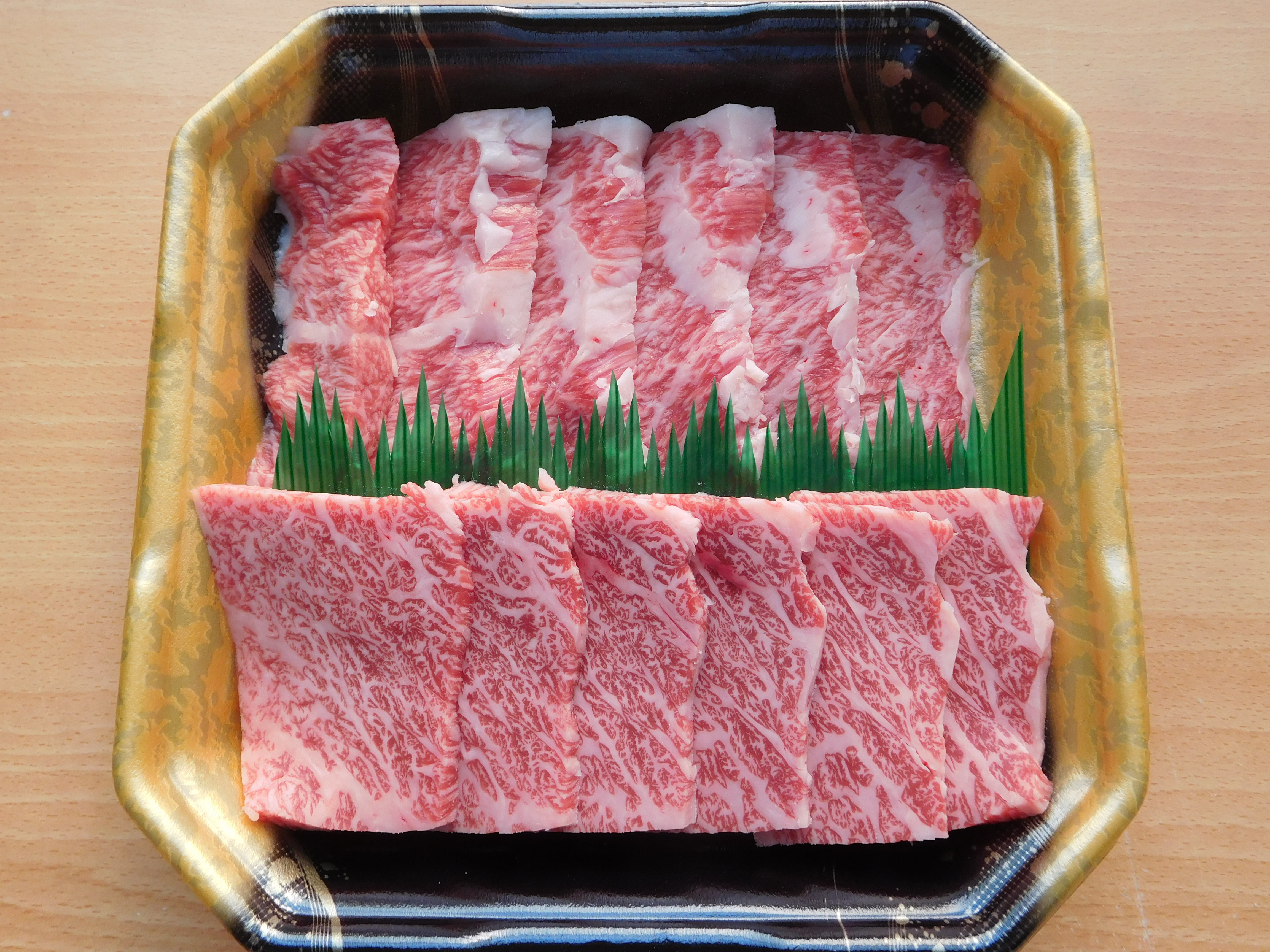 This is Miyazaki beef for Yakiniku. This beef was born in Saito, Miyazaki and was bred in Shintomi, Miyazaki.